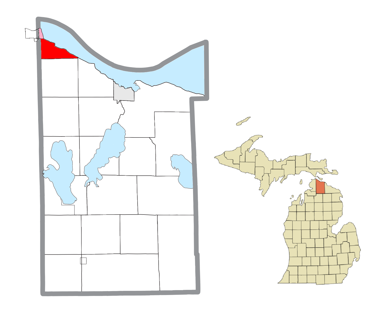 Mackinaw Township, MI